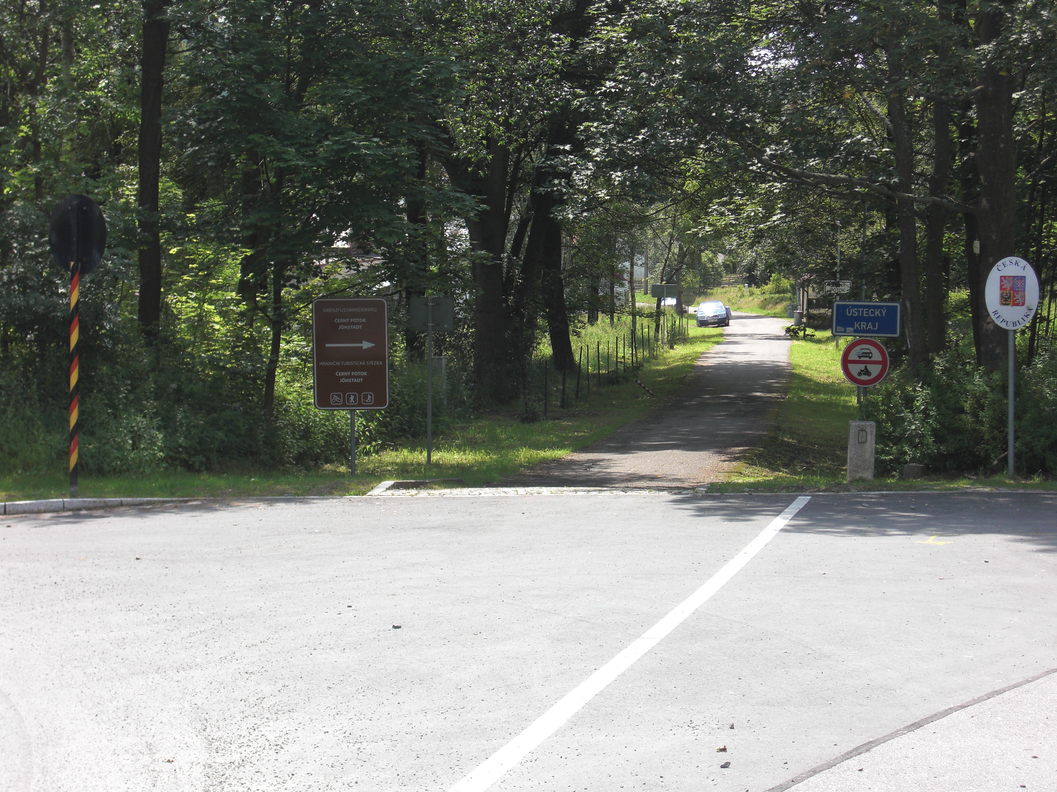 Border crossing